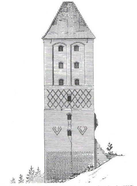 Przezmark Castle